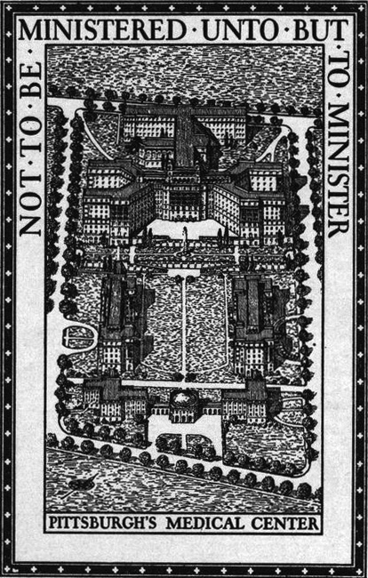 A circa 1926 plan for the origins of the University of Pittsburgh Medical Center.